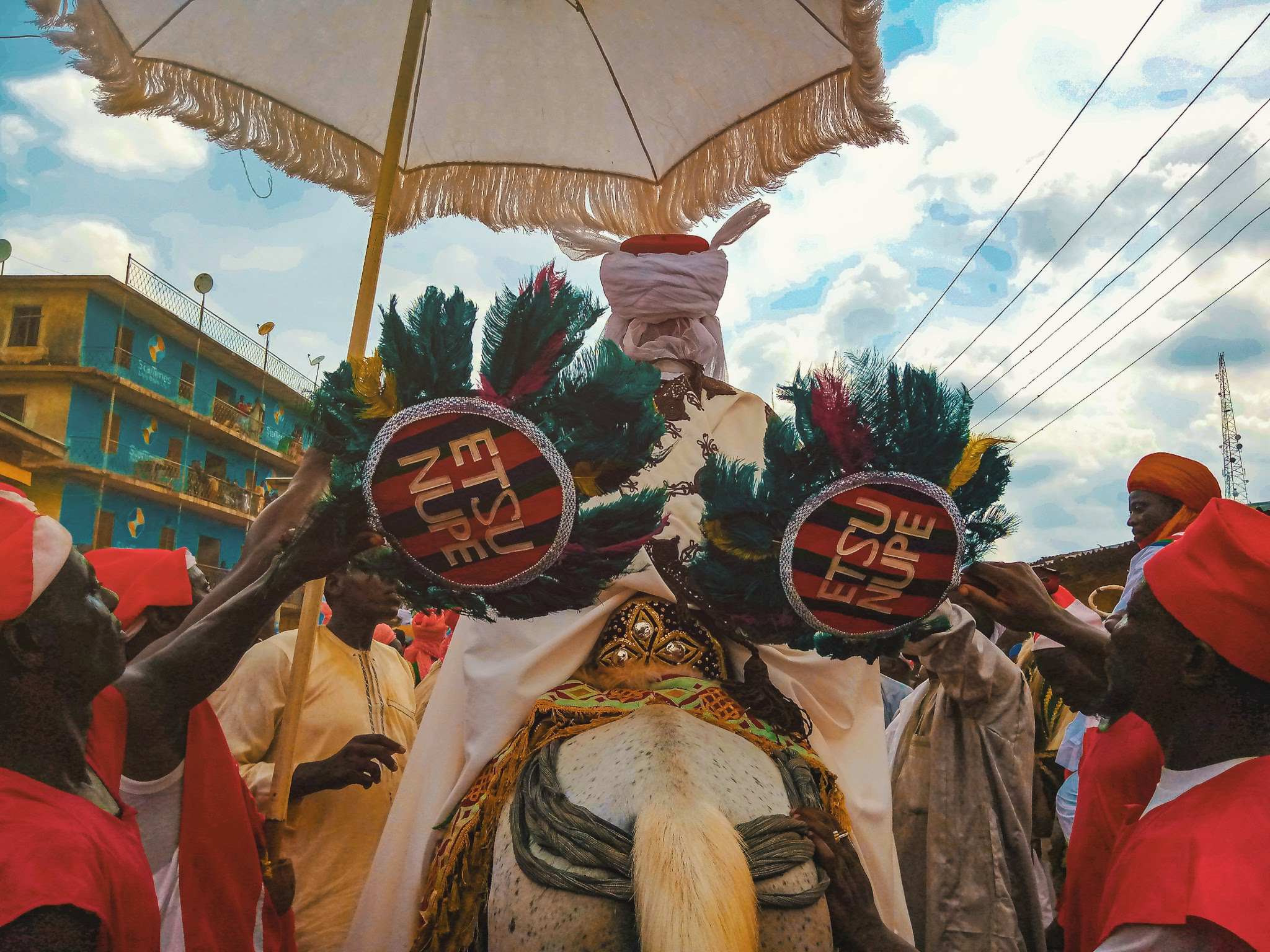 During the procession around the town, the servants continue using fans to blow him because of the scorching heat of the sun. This starts from the palace and continues all through the almost four hour ride.